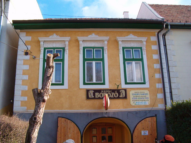 Photo taken by the Uploader. Free and shared to everyone, for all purposes. Gubbubu 19:57, 20 November 2005 (UTC)